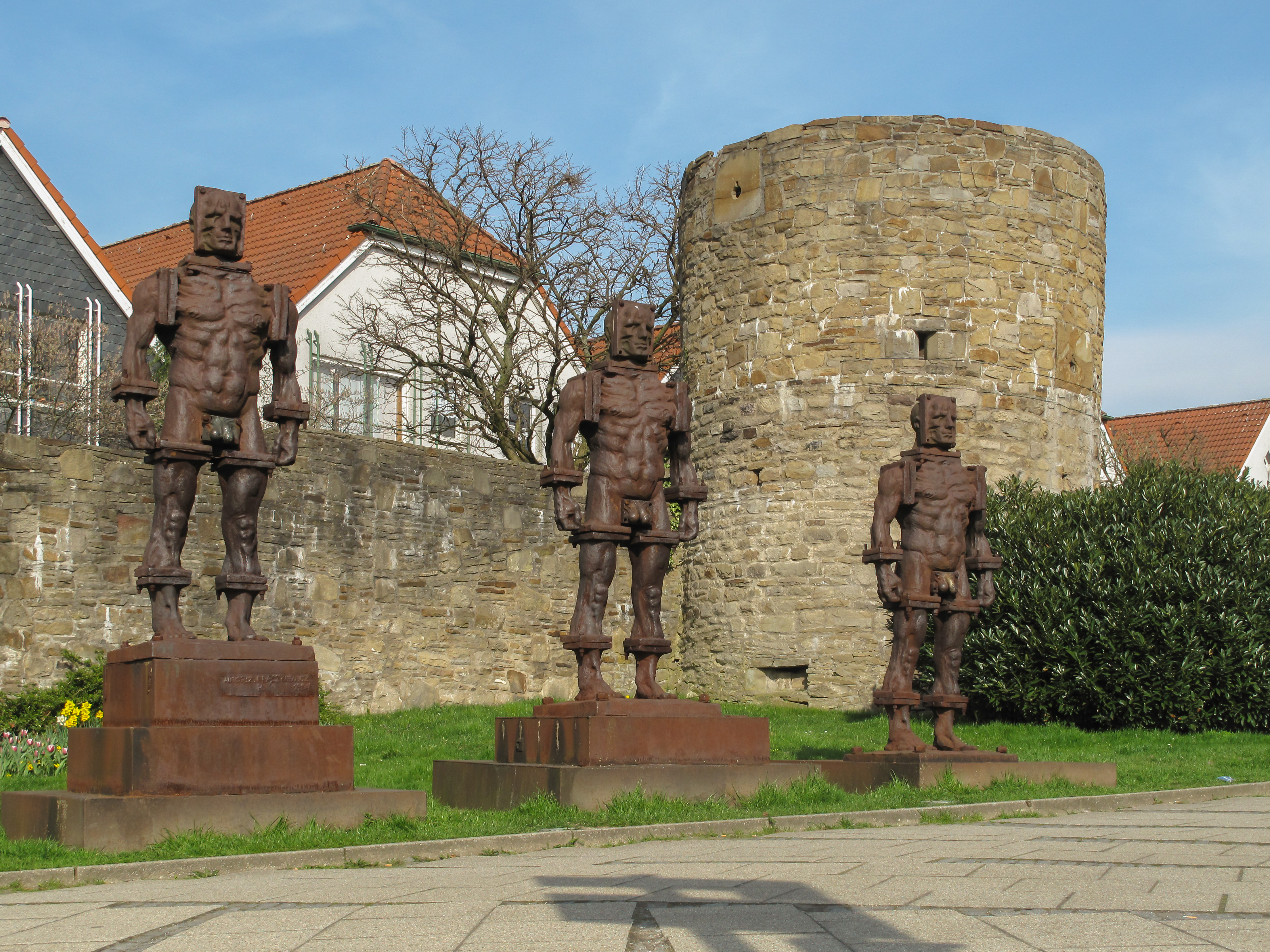 Hattingen, street art: Menschen aus Eisen